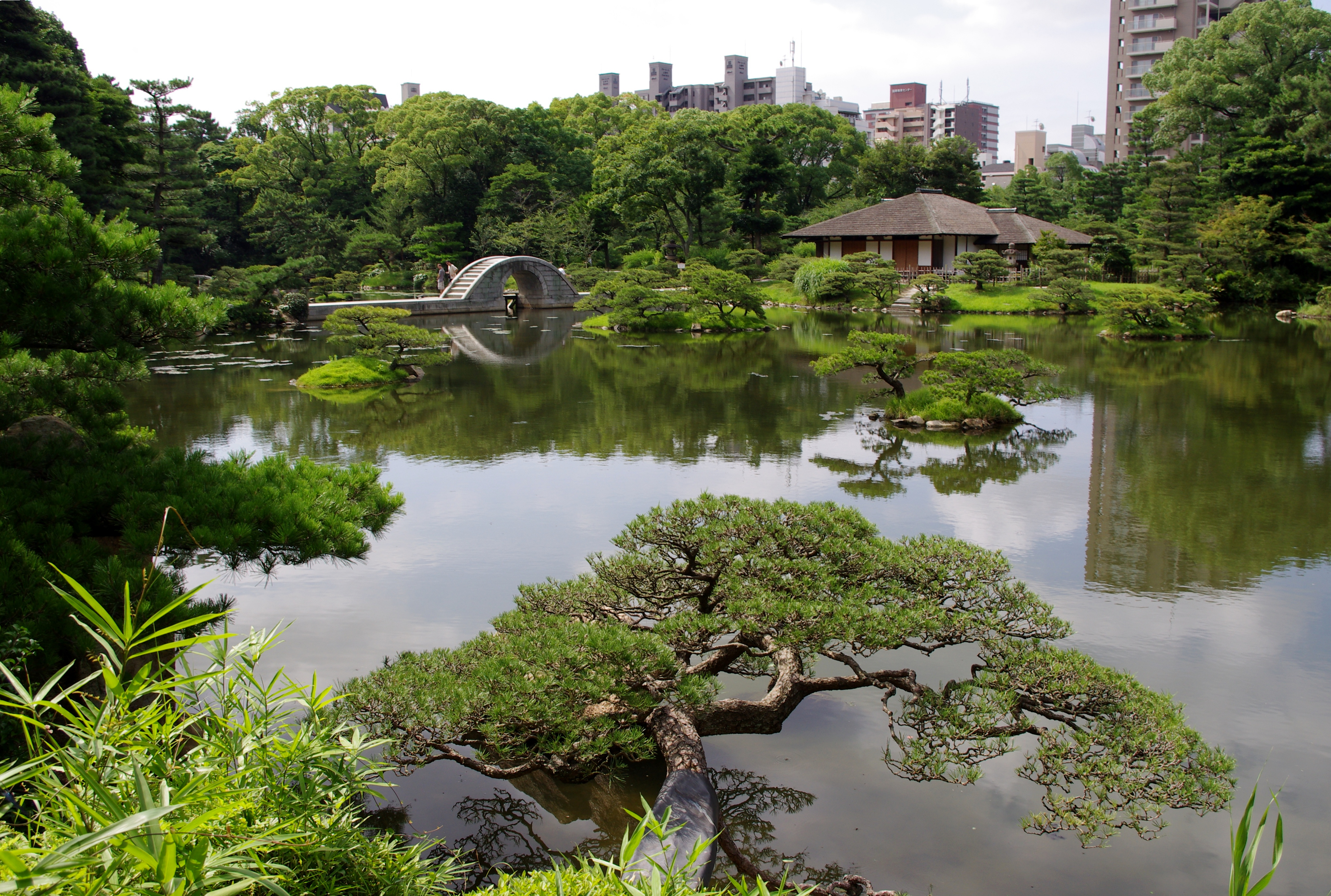 Shukkei-en Garden in the city of Hiroshima